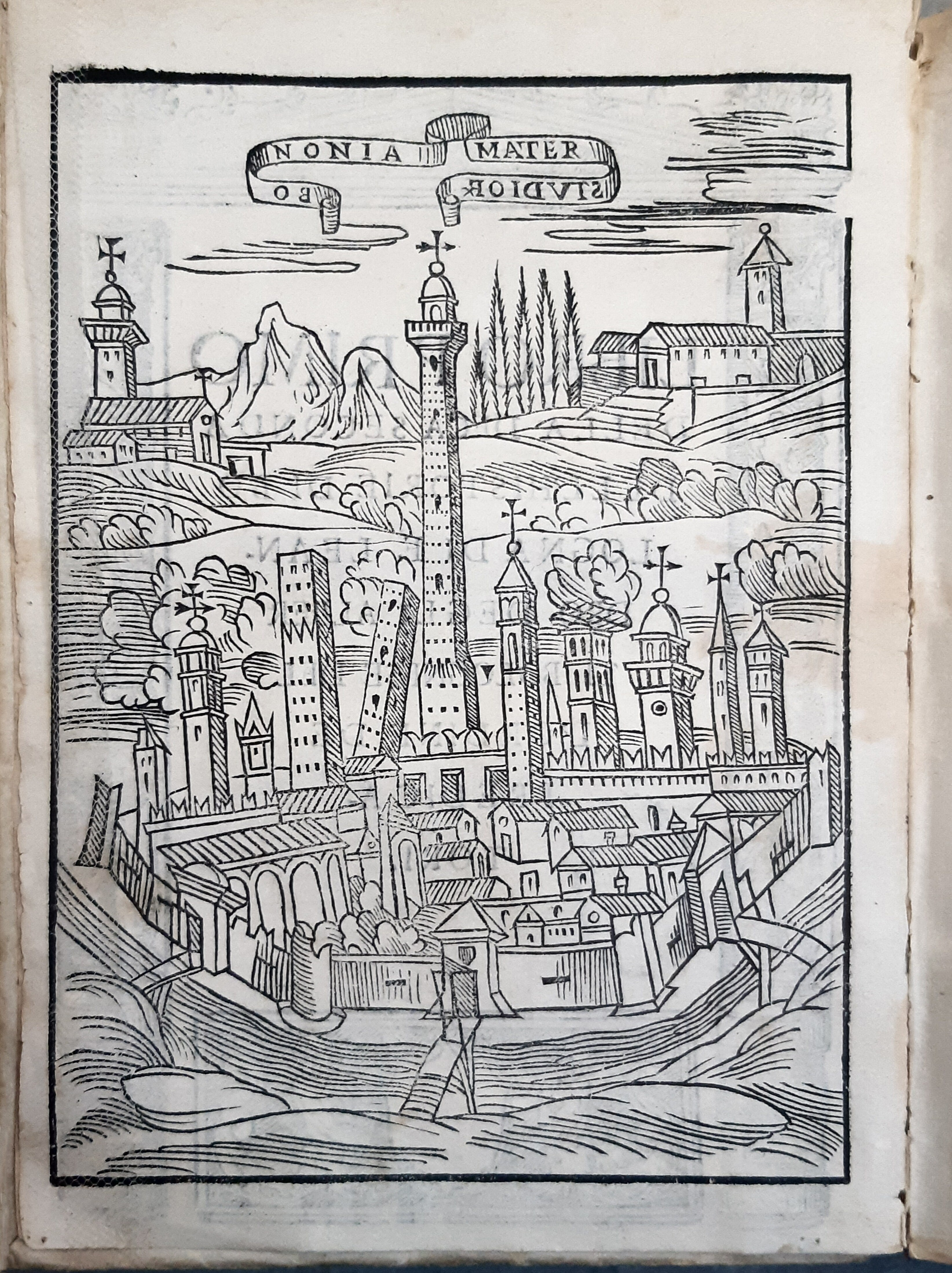 Engraving of the city of Bologna from Leandro Alberti's Deca seconda delle Historie de Bologna, Fausto Bonardo, 1590. The very tall tower and the leaning tower beside it still stand in the city centre.